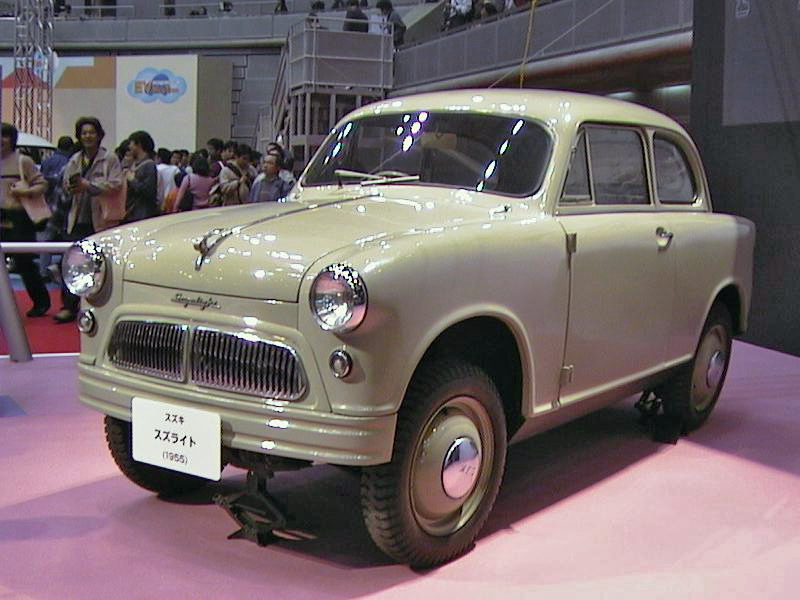 Suzuki_Suzulight taken in The 35th Tokyo Motor Show